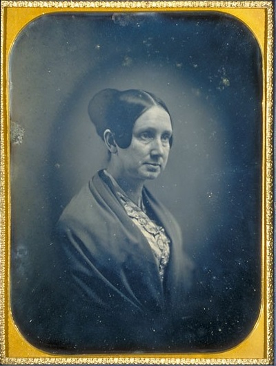 Daguerreotype of American activist Dorothea Dix (1802-1887). Dated by source as between 1840 and 1860. bMS Am 1838 (994.2), Houghton Library, Harvard University